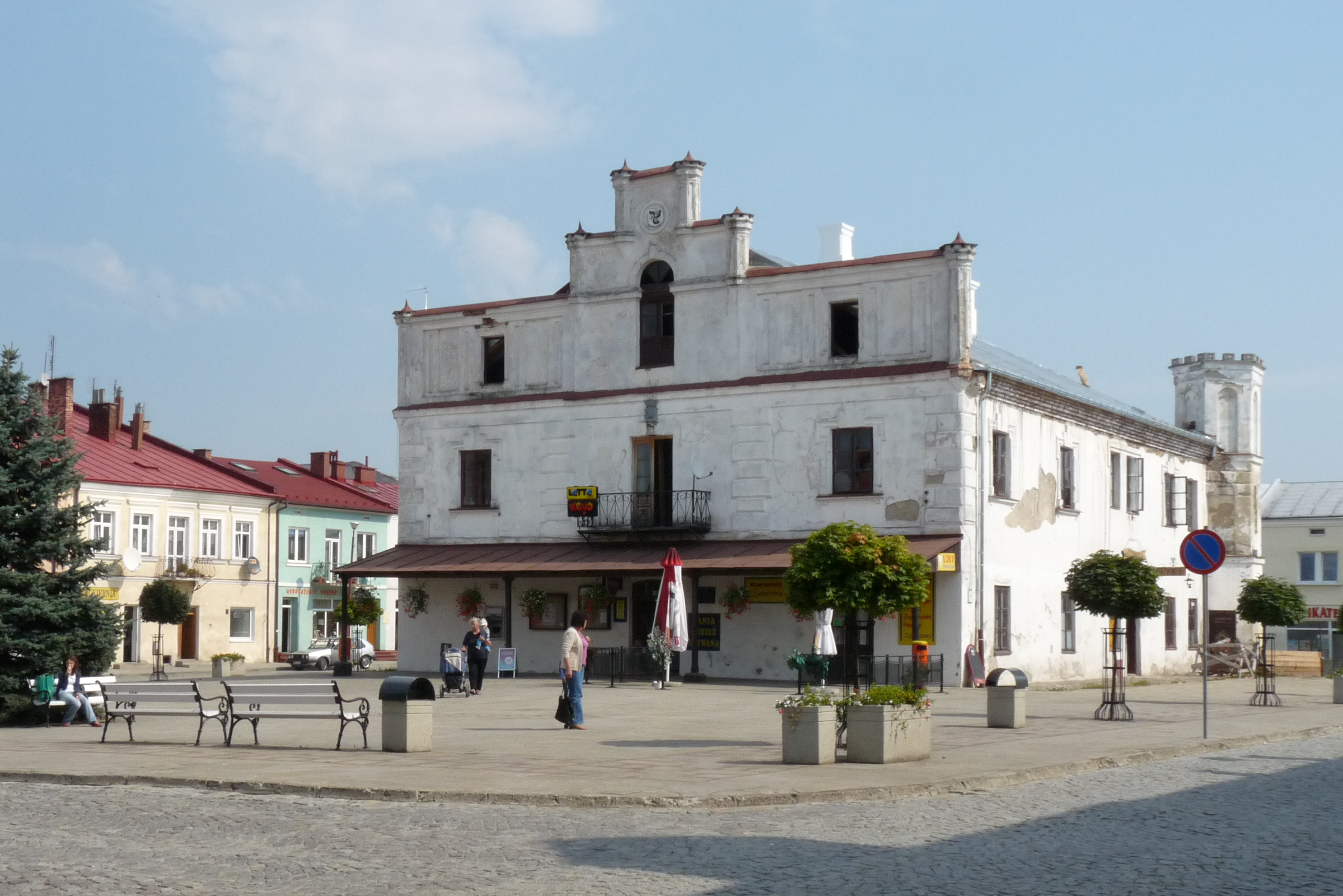 Town hall in Dukla